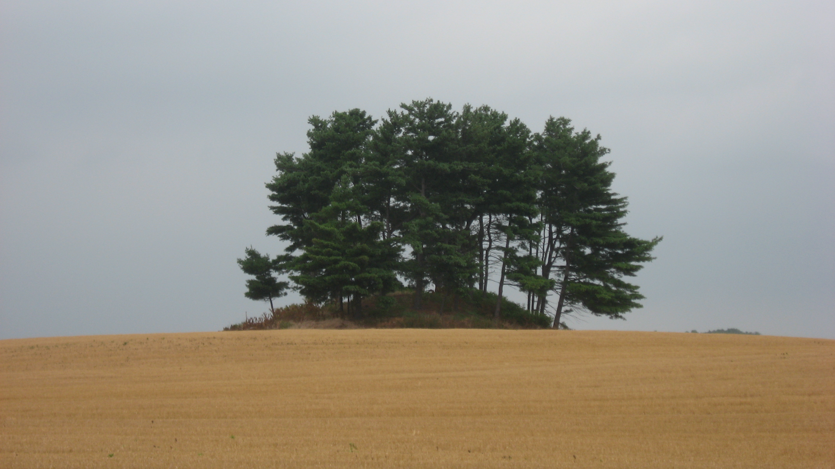 Southern side of the Luthor List Mound, located northeast of the junction of the Kingston Pike and Hitler Road #2 south of Circleville in Circleville Township, Pickaway County, Ohio, United States. Built by the prehistoric Adena culture, it is listed on the National Register of Historic Places.